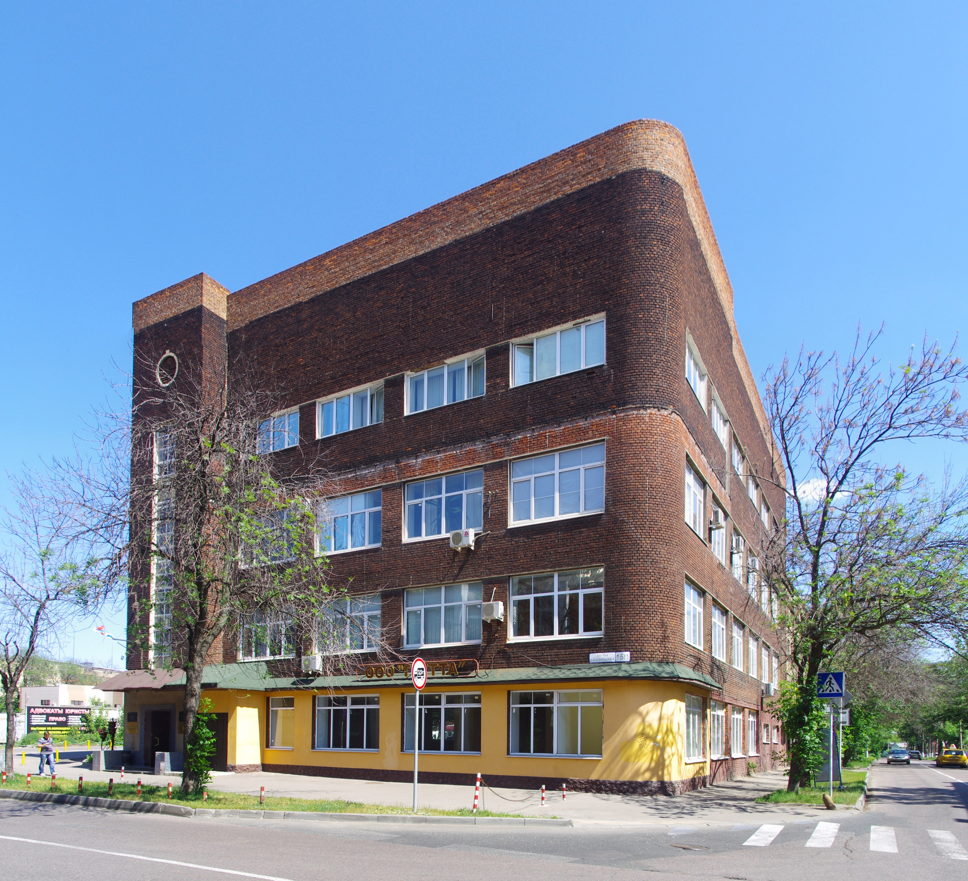 Mytishi court building.